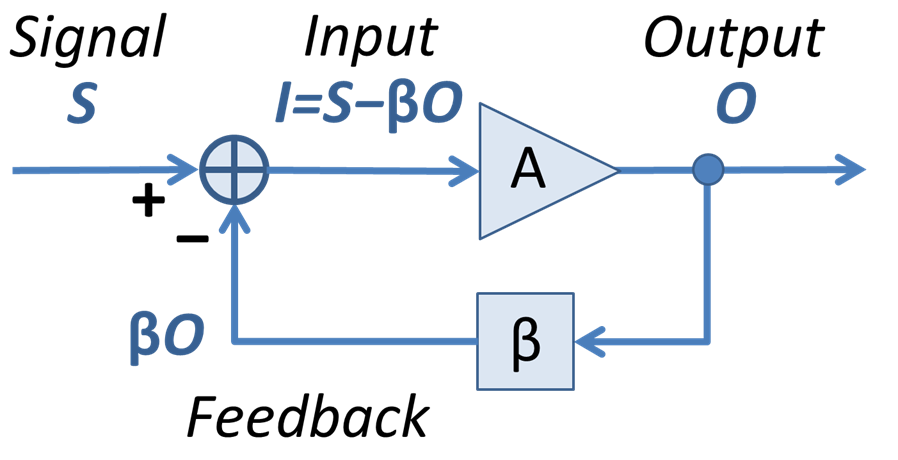 Block diagram for feedback. Patterned after Figure 6.1, p. 192 in Santiram Kal: 'Basic Electronics'